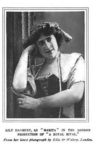 Lily Hanbury (1874 - 5 March 1908)